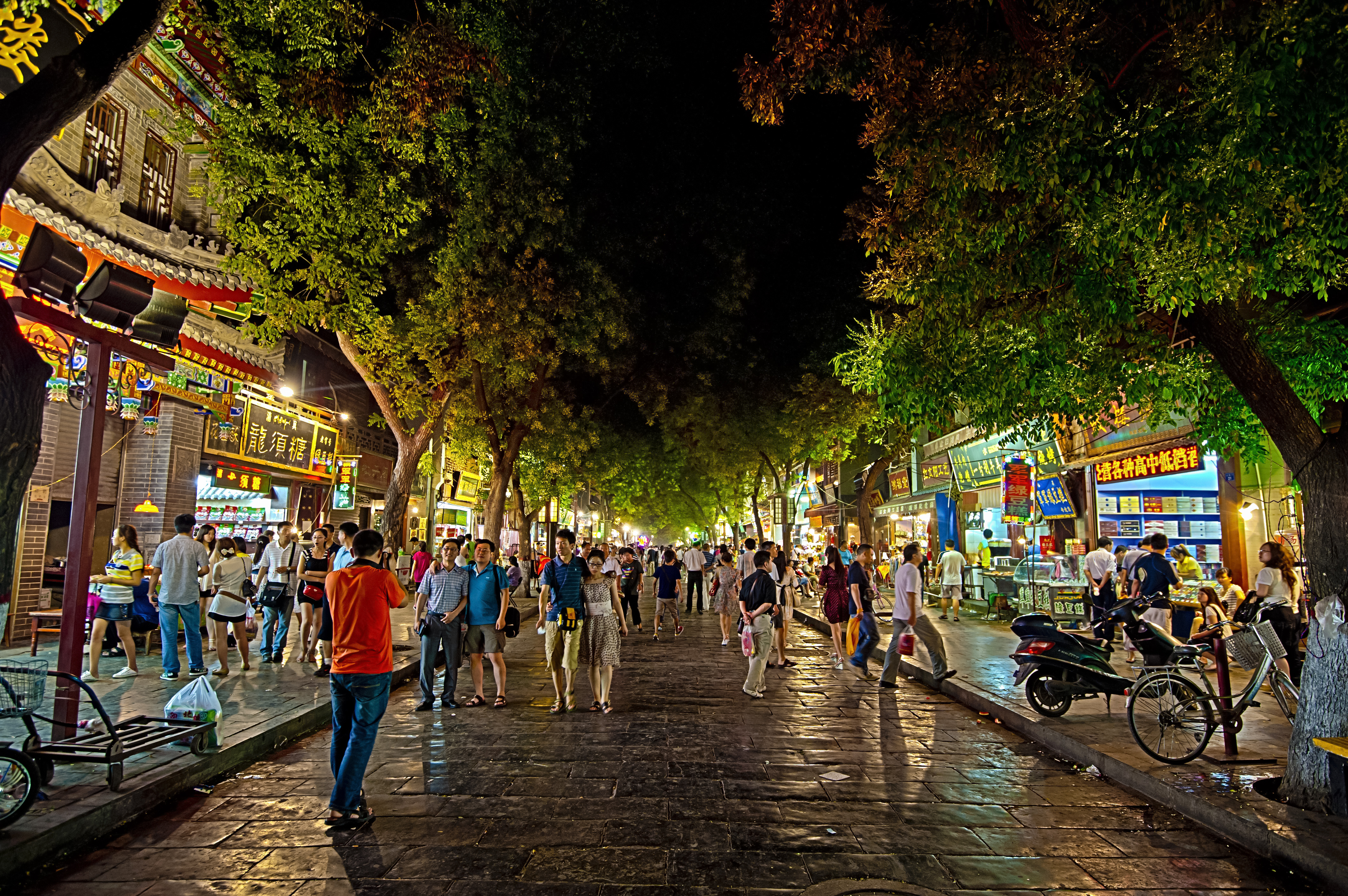 xi'an china shanxi muslim quarter night 2011